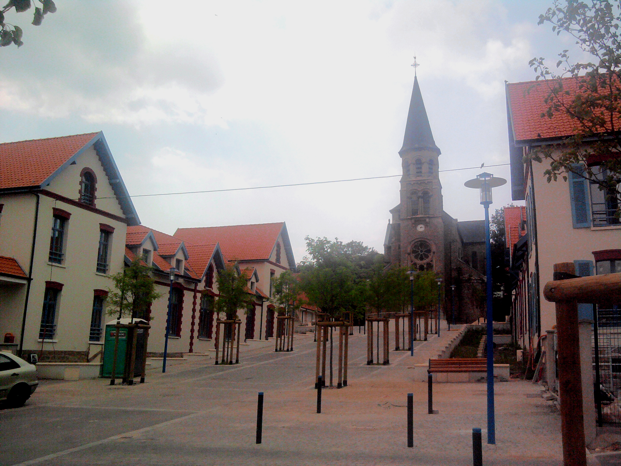 The Church of Pont-de-Briques